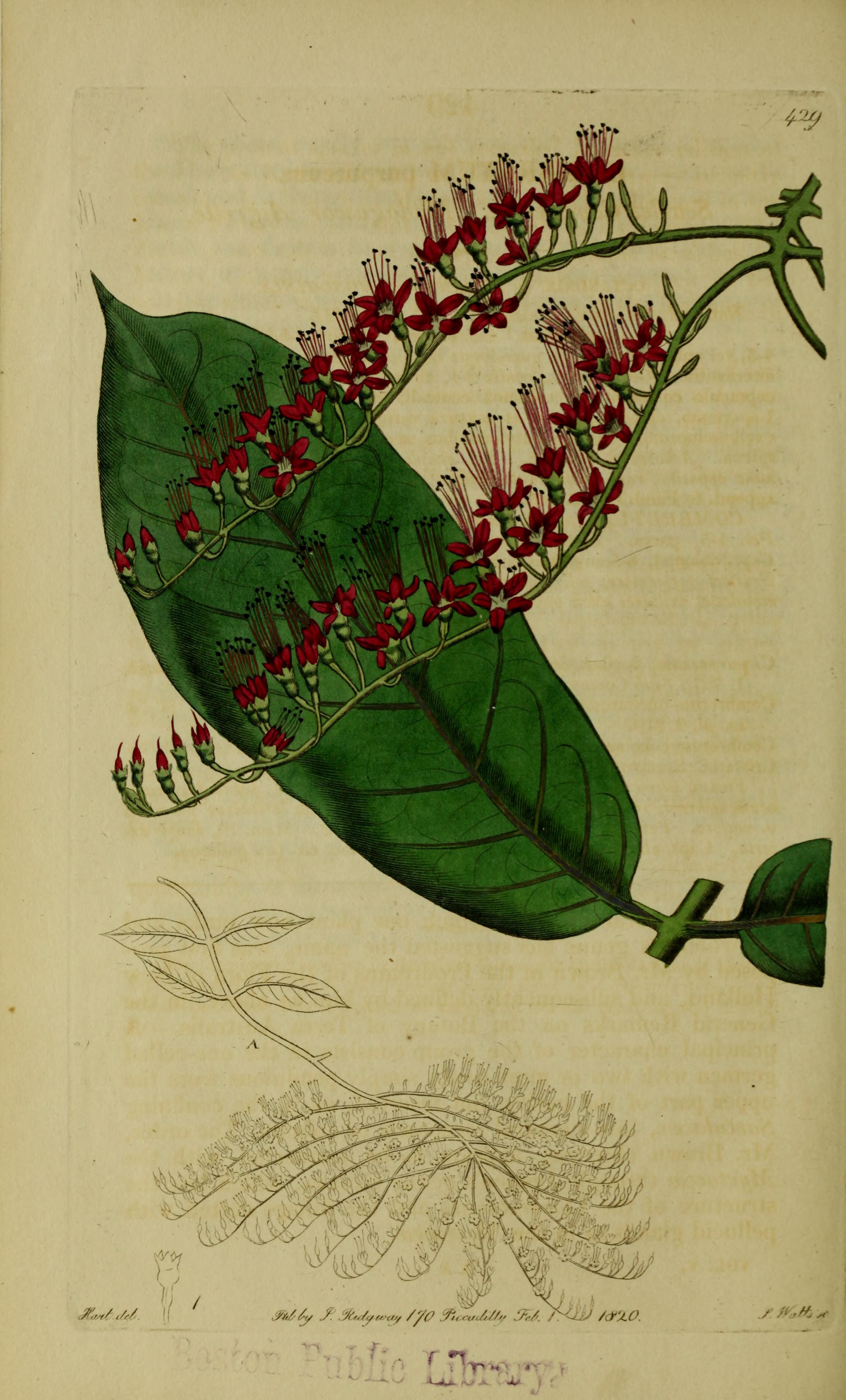 Title: The Botanical register consisting of coloured figures of Year: 1815 (1810s) Authors: Edwards, Sydenham, 1768-1819; Shrewsbury, John Talbot, Earl of, 1791-1852, former owner Subjects: Plants, Ornamental; Plant introduction; Botanical illustration; Botany; Floriculture; Botany Publisher: (London : s. n. ) Text Appearing Before Image: ' Text Appearing After Image: '